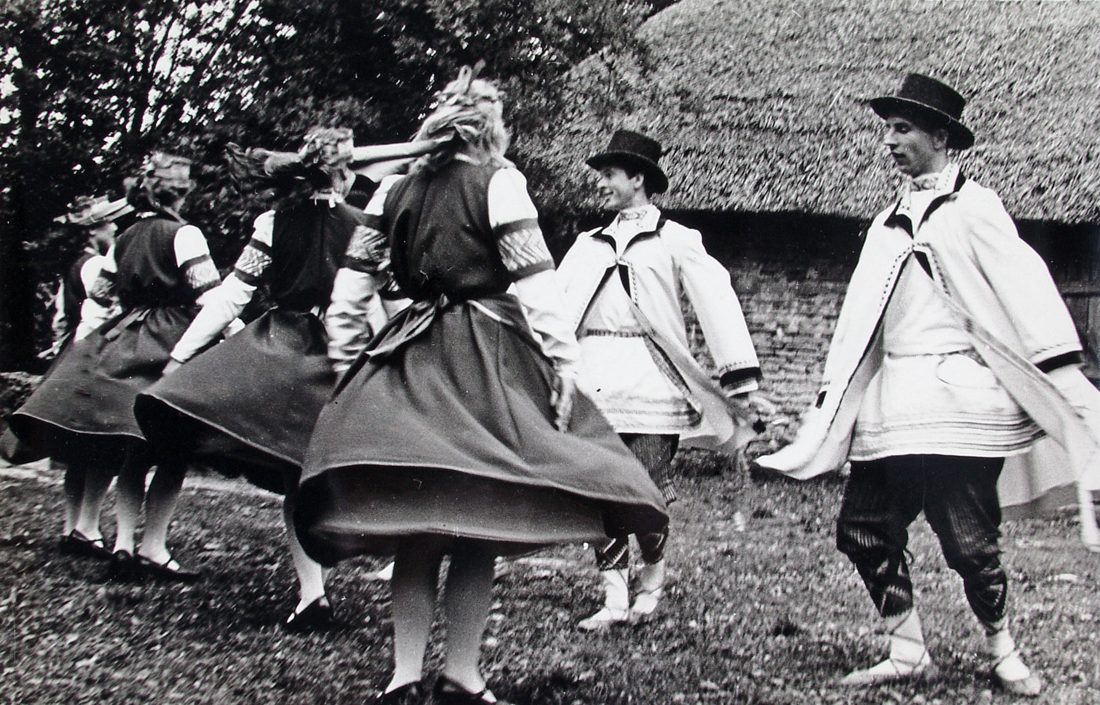 Filmi Elavad mustrid (1970) ülesvõtmine.